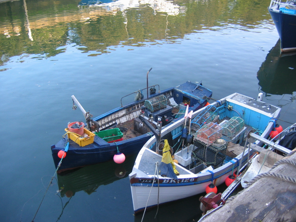 Boats in Eyemouth Harbour, Scottish Borders